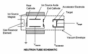 Schematic of zetatron tube